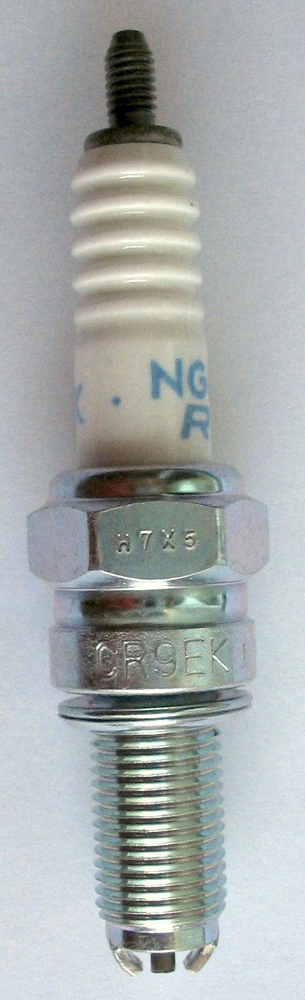 NGK spark plug (type CR9EK)